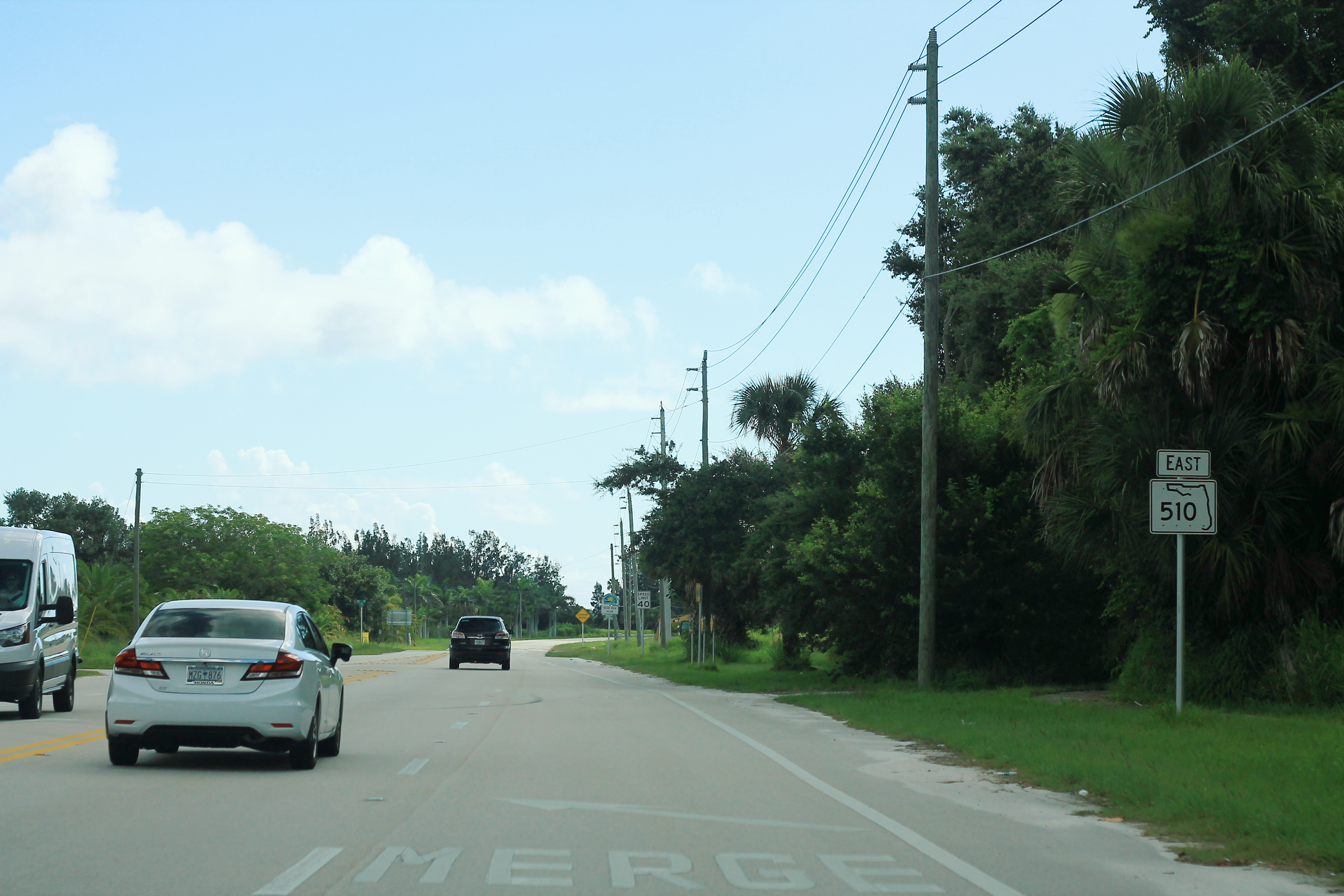 FL510 East Sign